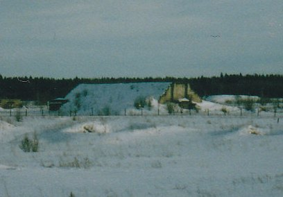 long hangar (caponier) at an airfield in Estonia